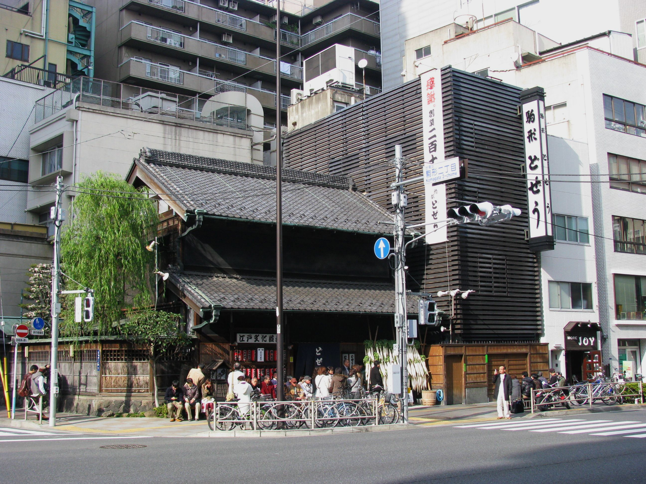 The Komagata Dozeu is the Weather loach restaurant. This place is Komagata in Taitō, Tokyo, Japan.